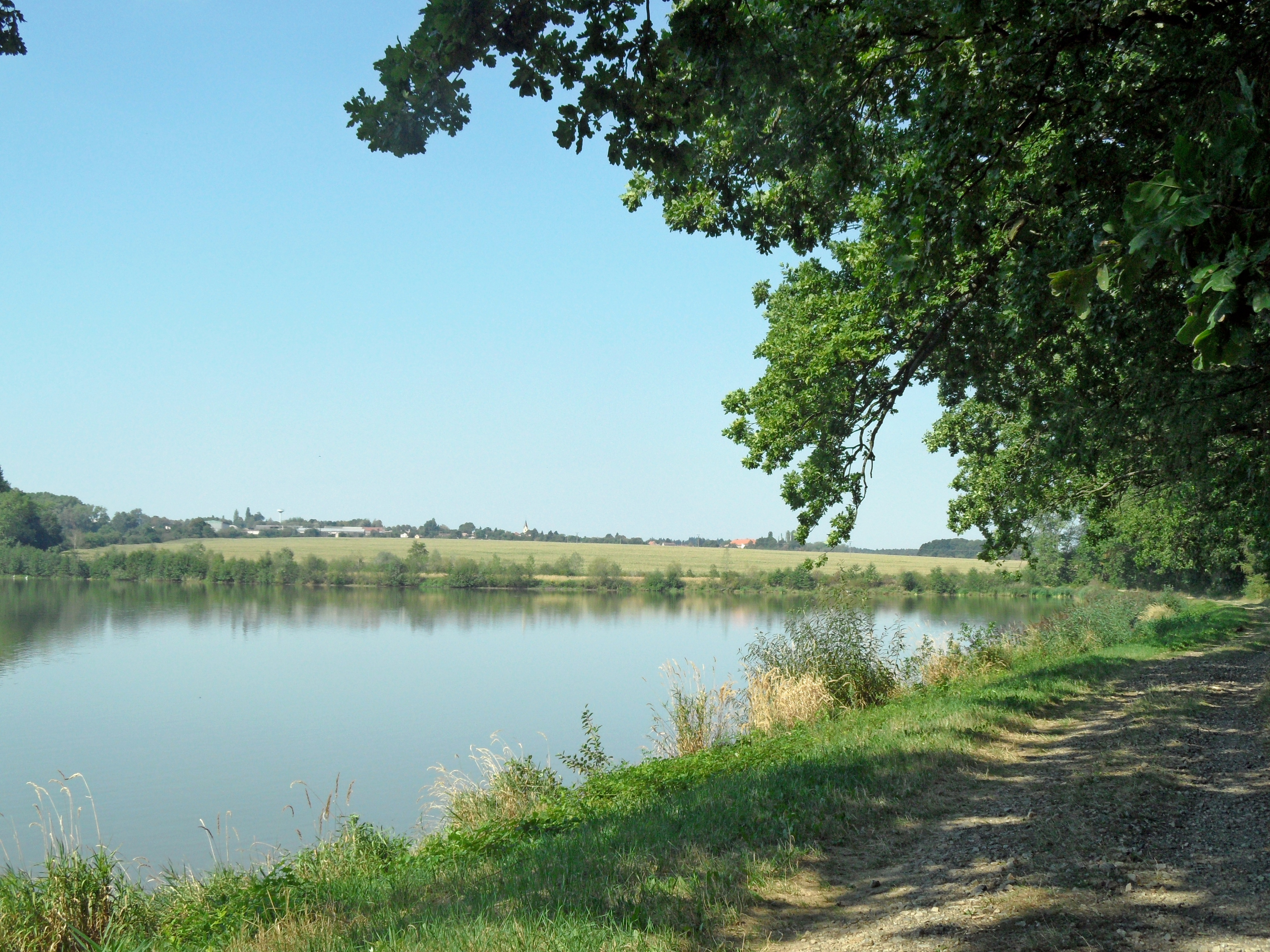 Zadní F. Pond Nedovedlo near West Edge of the Village: View to West (to Červené Janovice). Kutná Hora District, the Czech Republic.